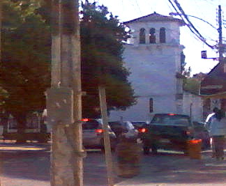 Church of Santa Cruz, totally destroyed after the quake